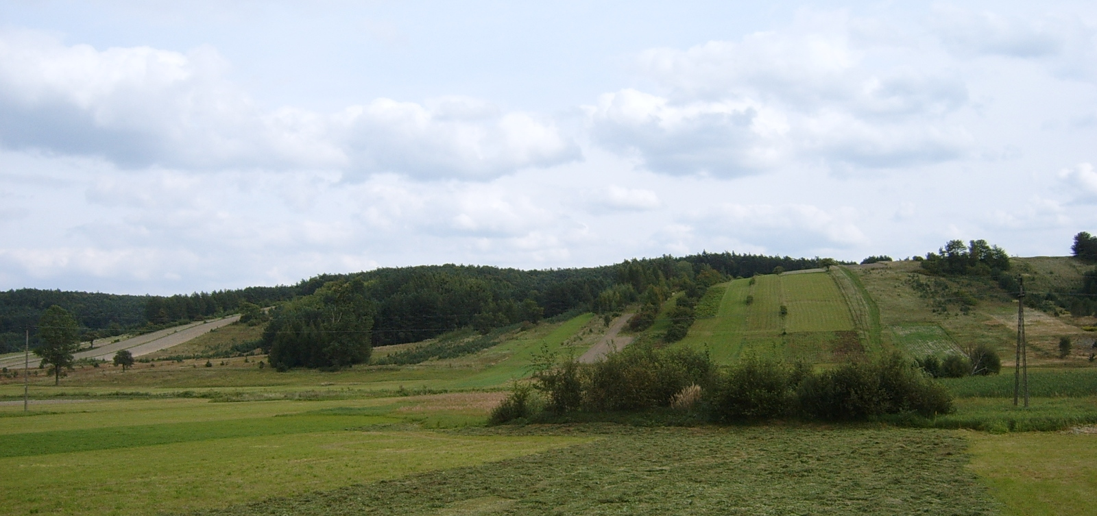 Roztocze region in Poland